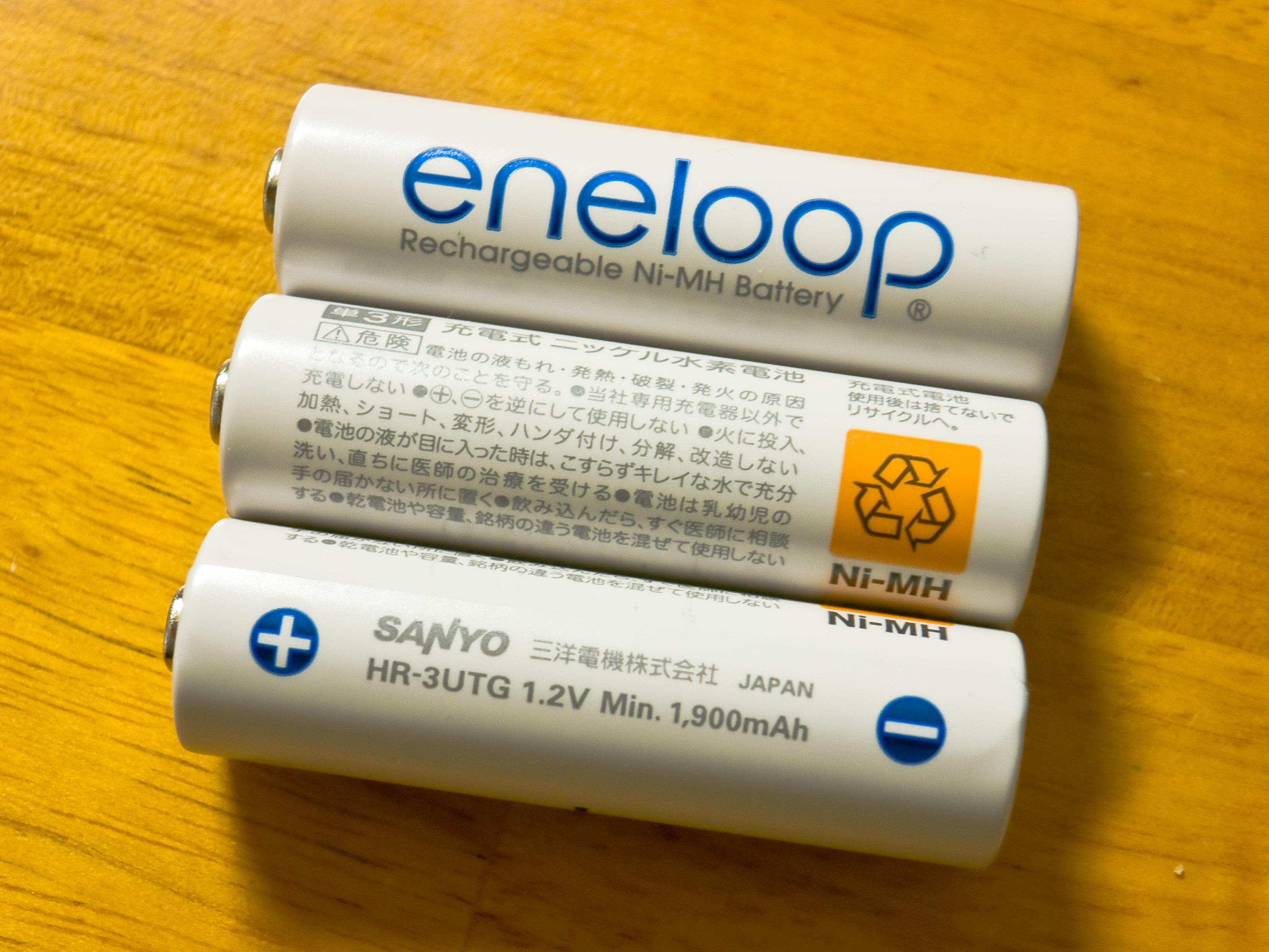 Eneloop AA batteries, an example of Low self-discharge NiMH battery